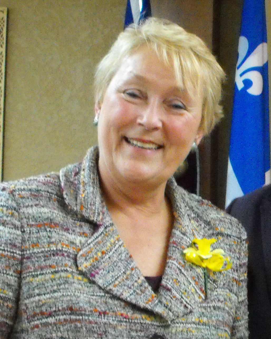 Pauline Marois, the current Leader of the Official Opposition of the National Assembly of Quebec.